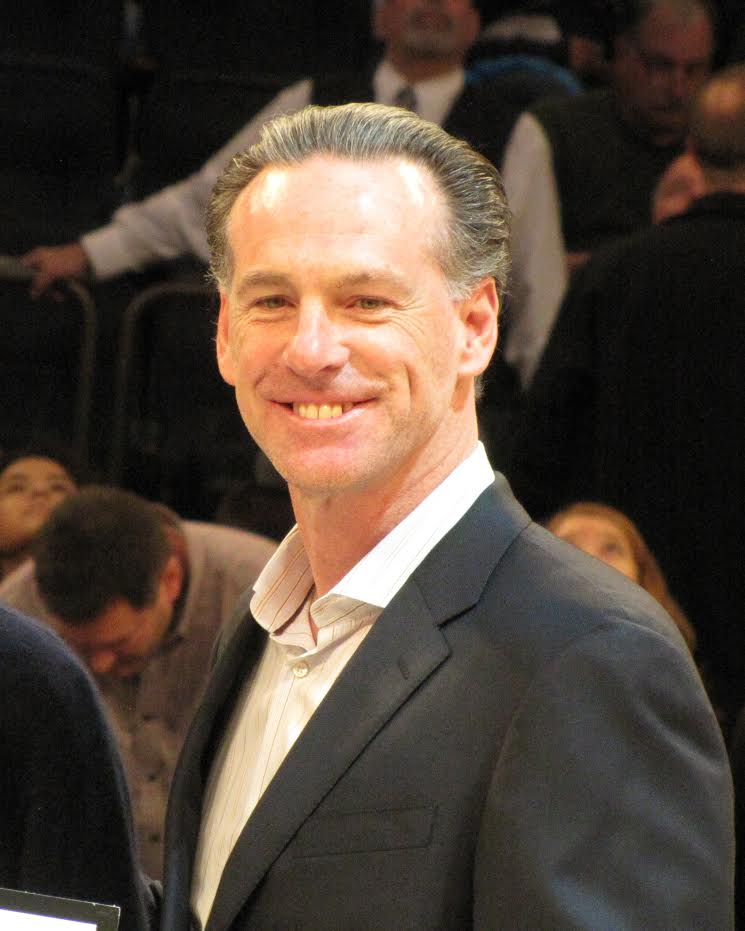 Jamie Dixon, at Maggie Dixon Classic 22 Dec 2013 in Madison Square Garden